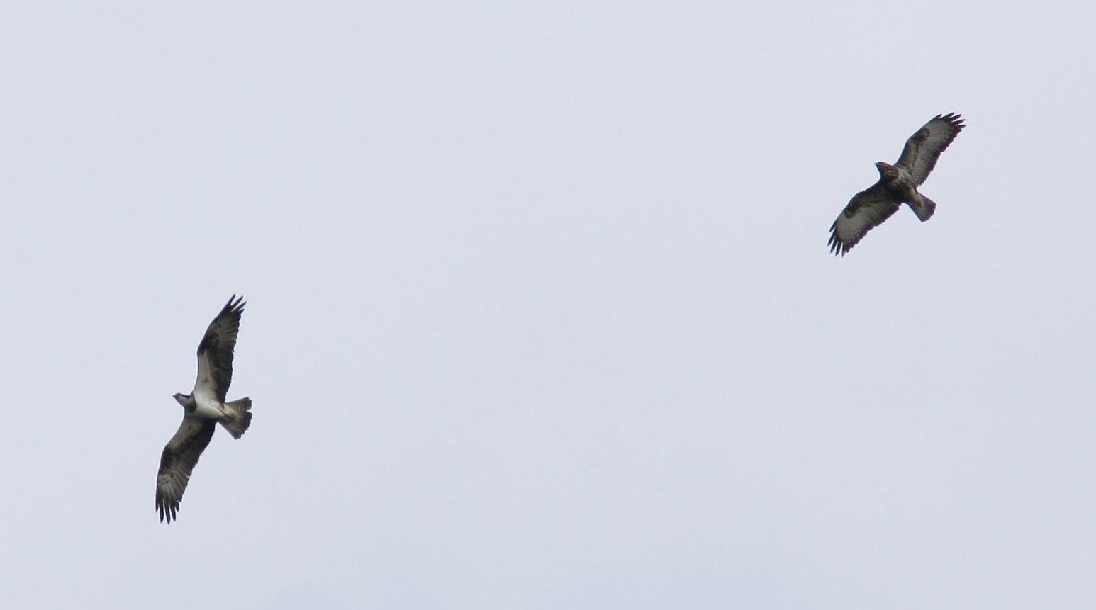 Pandion haliaetus, Maliniec, Poland 2007, comparision Osprey (left) vs Common Buzzard (right) on the wing